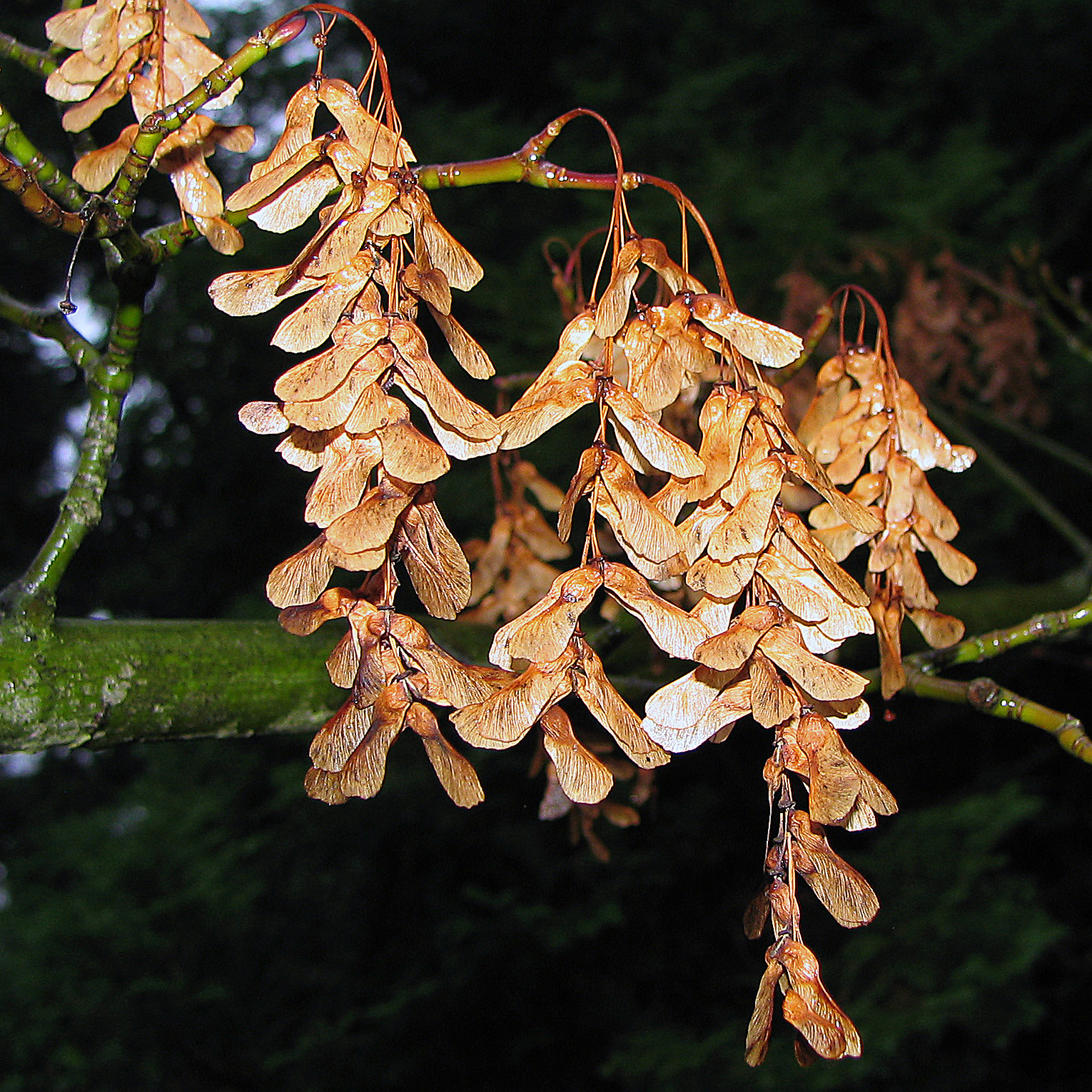 Acer capillipes samaras